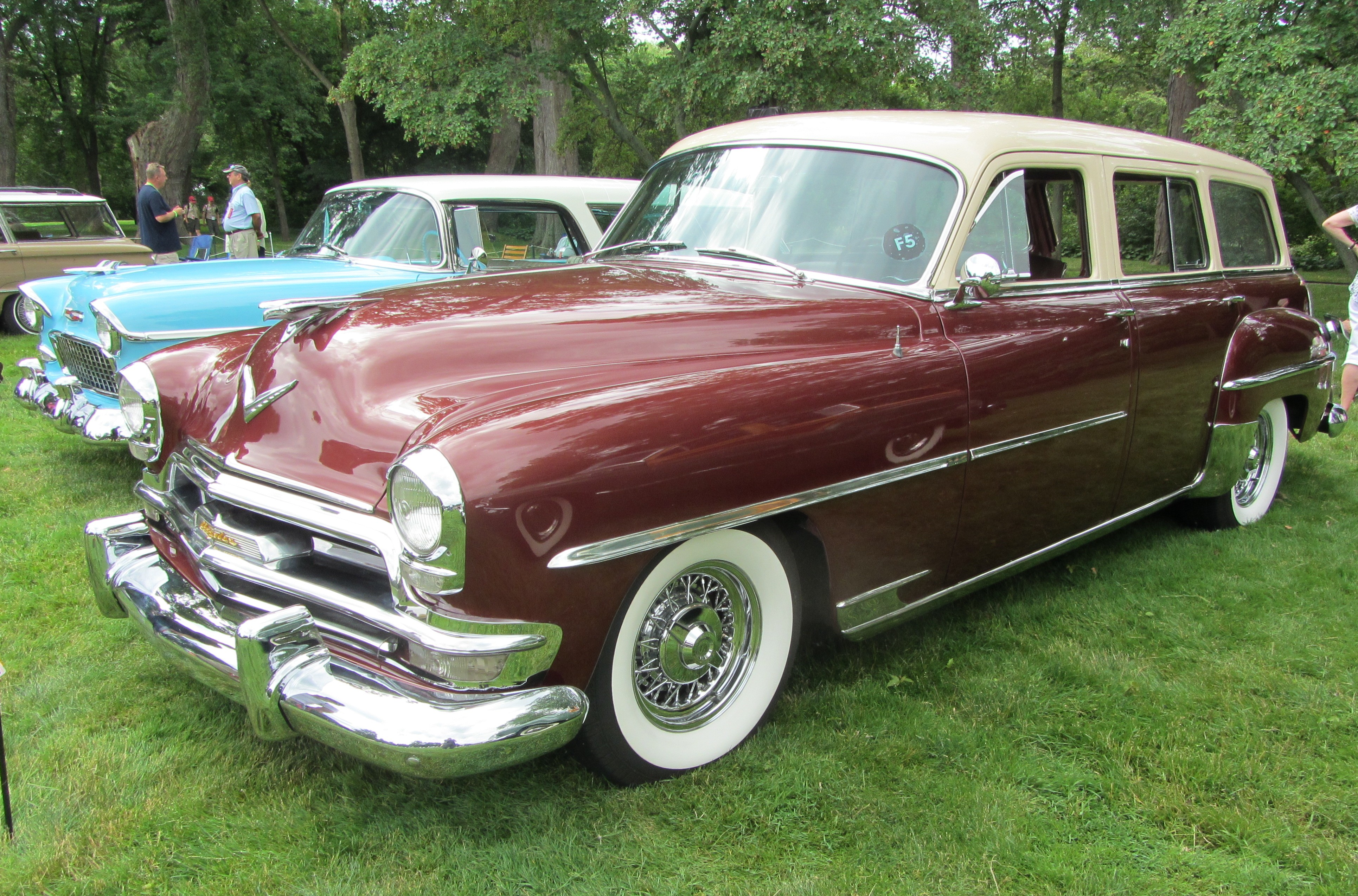 1954 Chrysler Town and Country